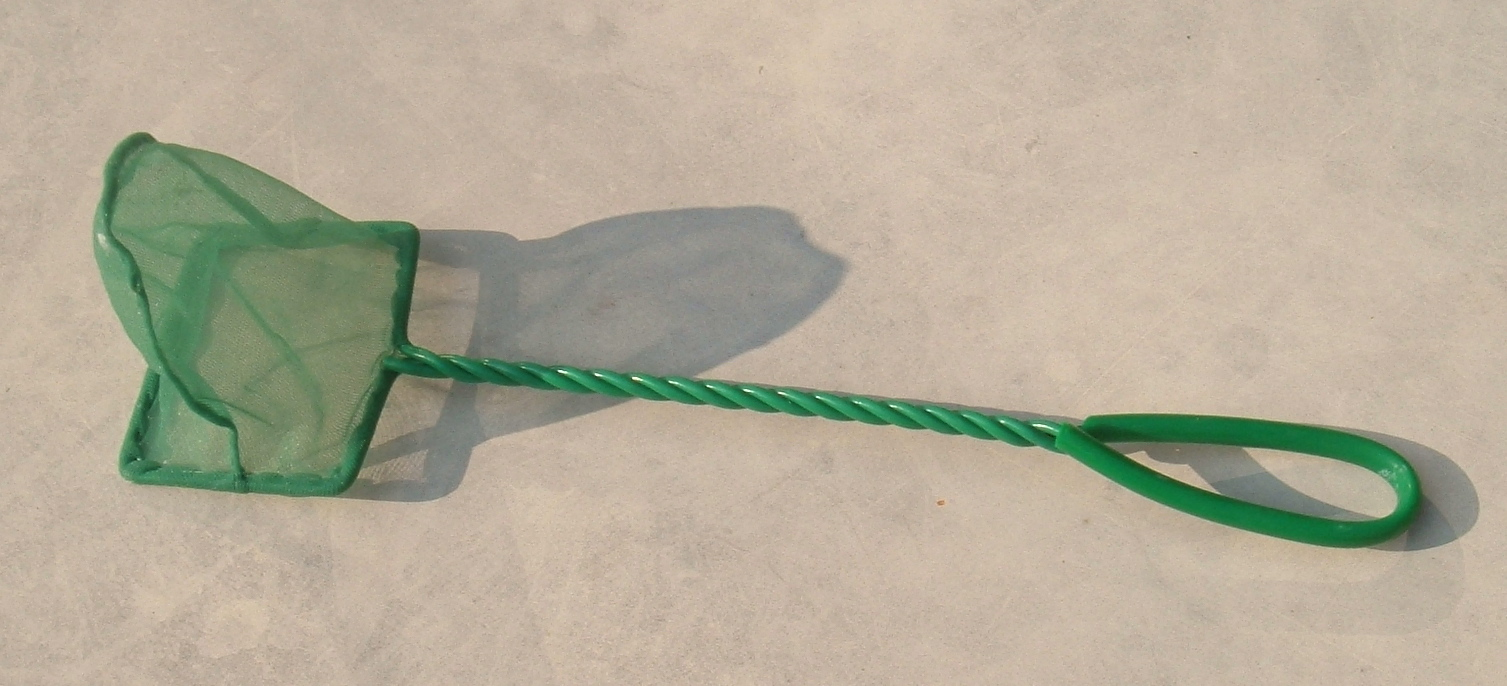 A small fish net used for fish tanks. One of a series of common objects I photographed in the summer of 2005 to illustrate Basic English picture wordlist. --agr 21:08, 3 August 2005 (UTC)